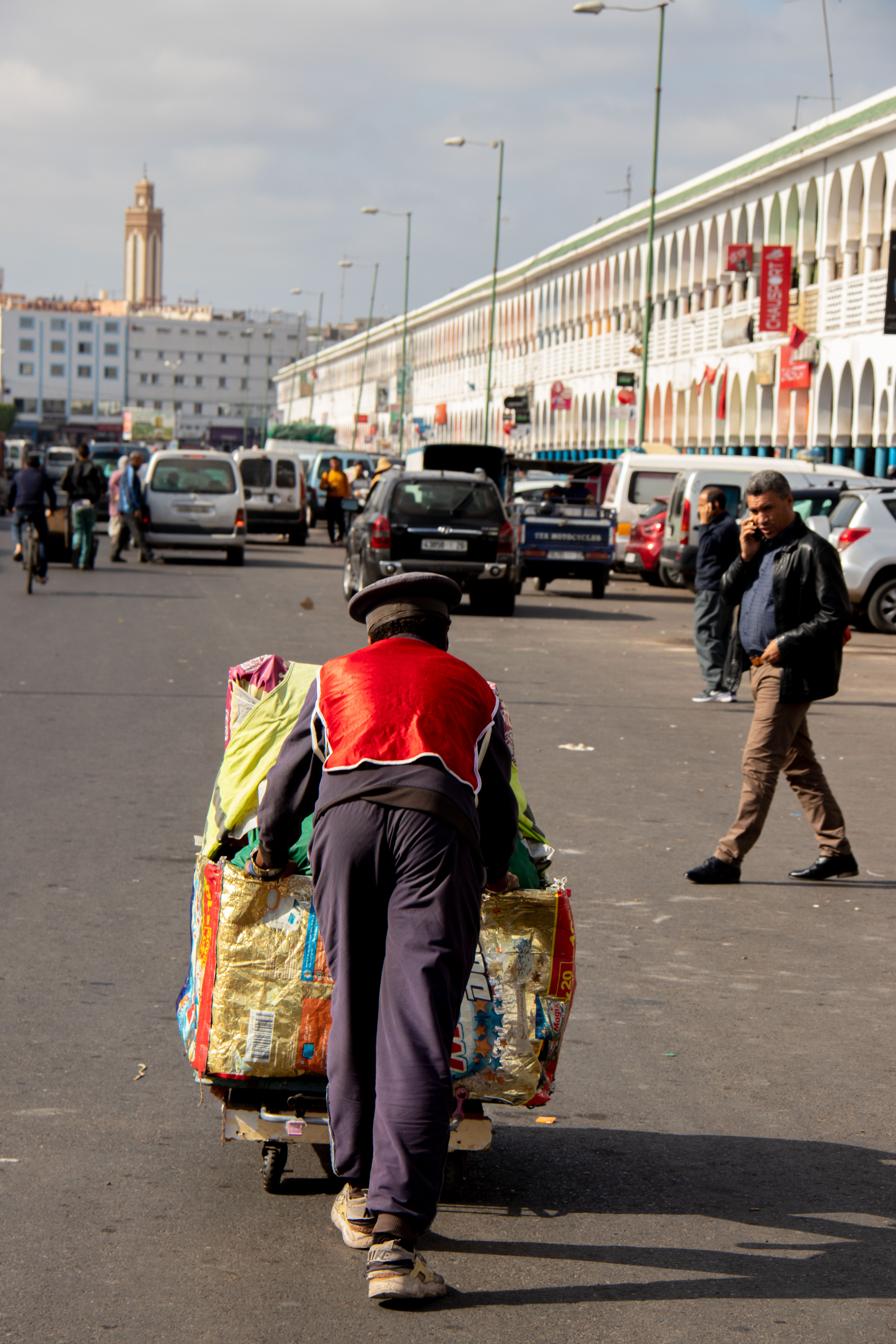 A man is pushing a handle cart in Inezgane This is an image with the theme "Africa on the Move or Transport" from: Morocco